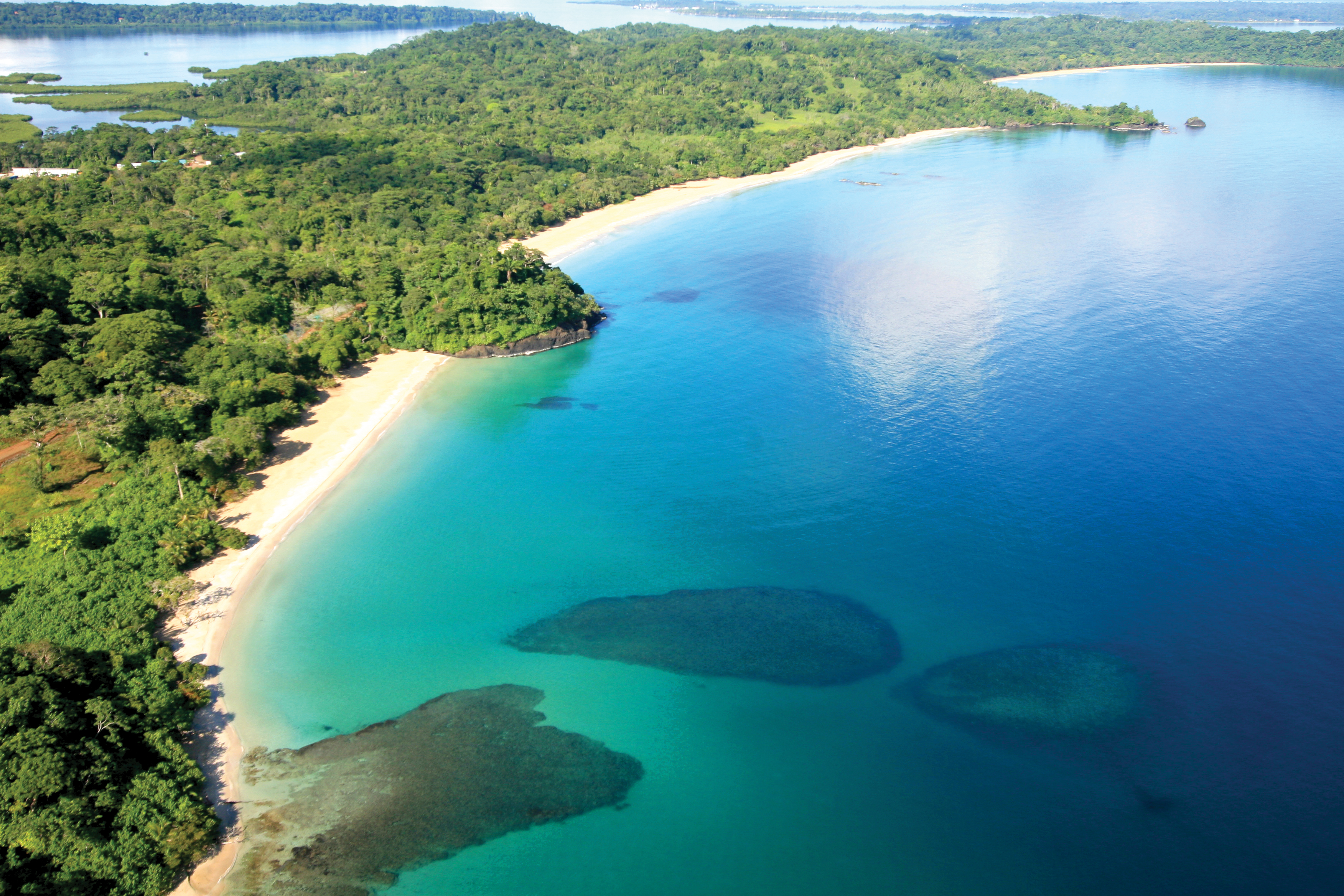 This is an aerial view of Red Frog Beach where a resort is located. The resort has restored a lot of vegetation on the island caused by cattle grazing. The resort was started by Joe Haley who found this deforested land in Bocas del Toro and built a Paradise called Red Frog Beach